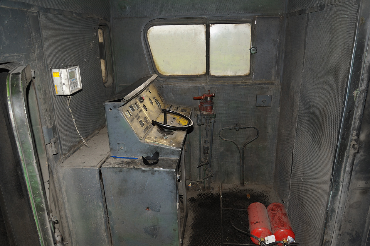 Cab of middle section of russian diesel locomotive 3TE10MK